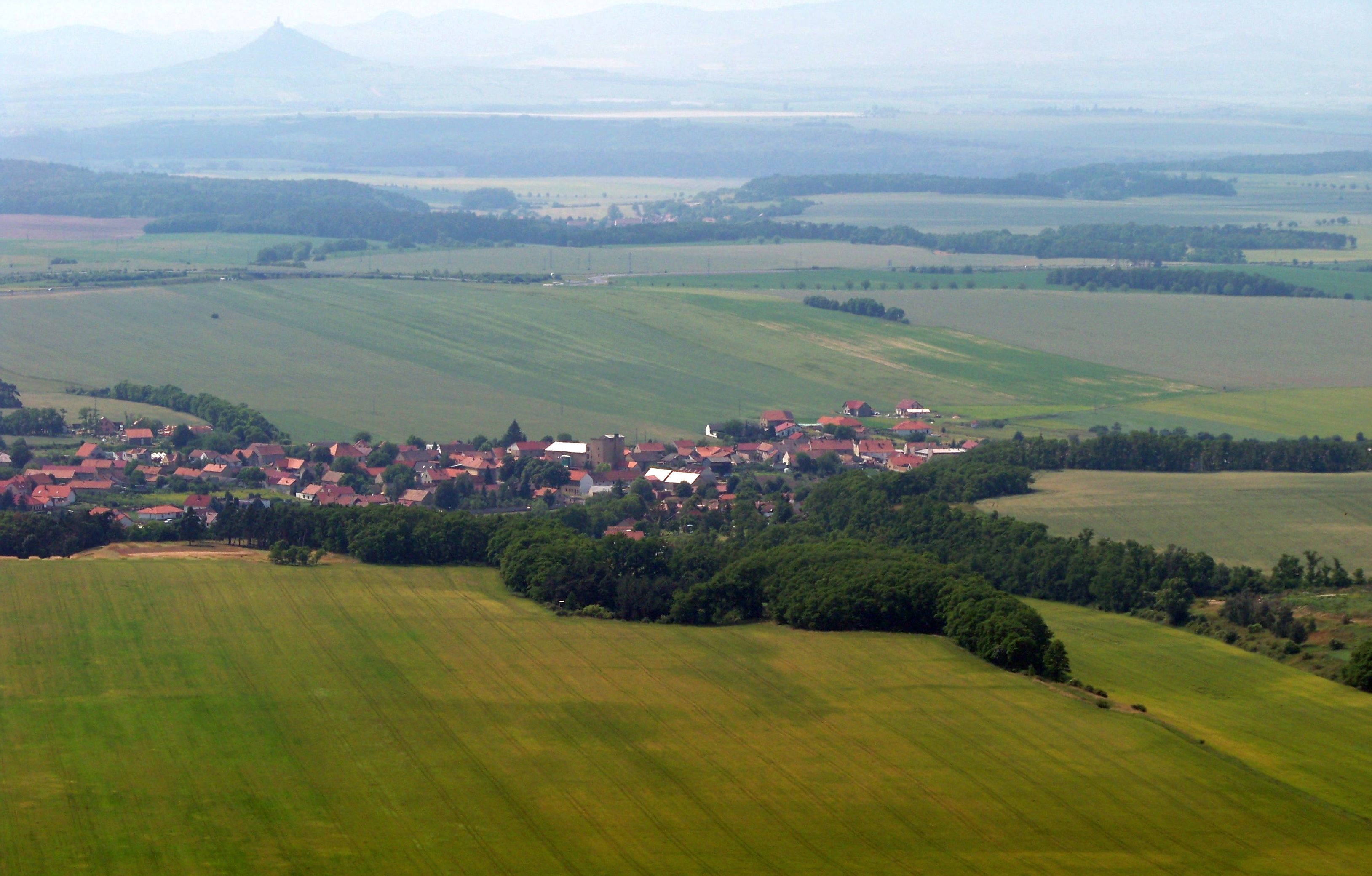 Kleneč, Litoměřice District,Ústí nad Labem Region, the Czech Republic. A view from Říp Mountain.